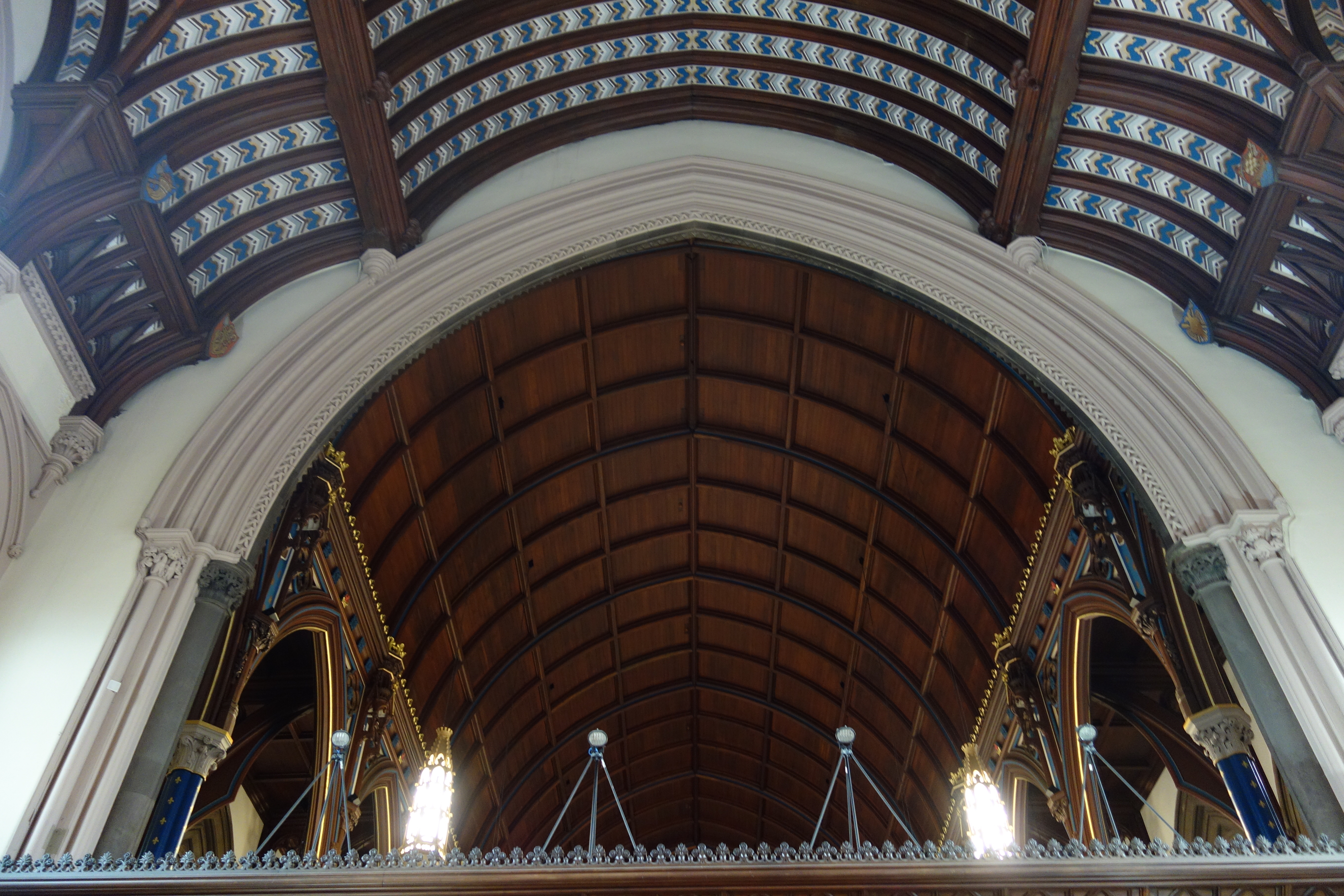 Ceiling of Bute Hall, University of Glasgow (2017)